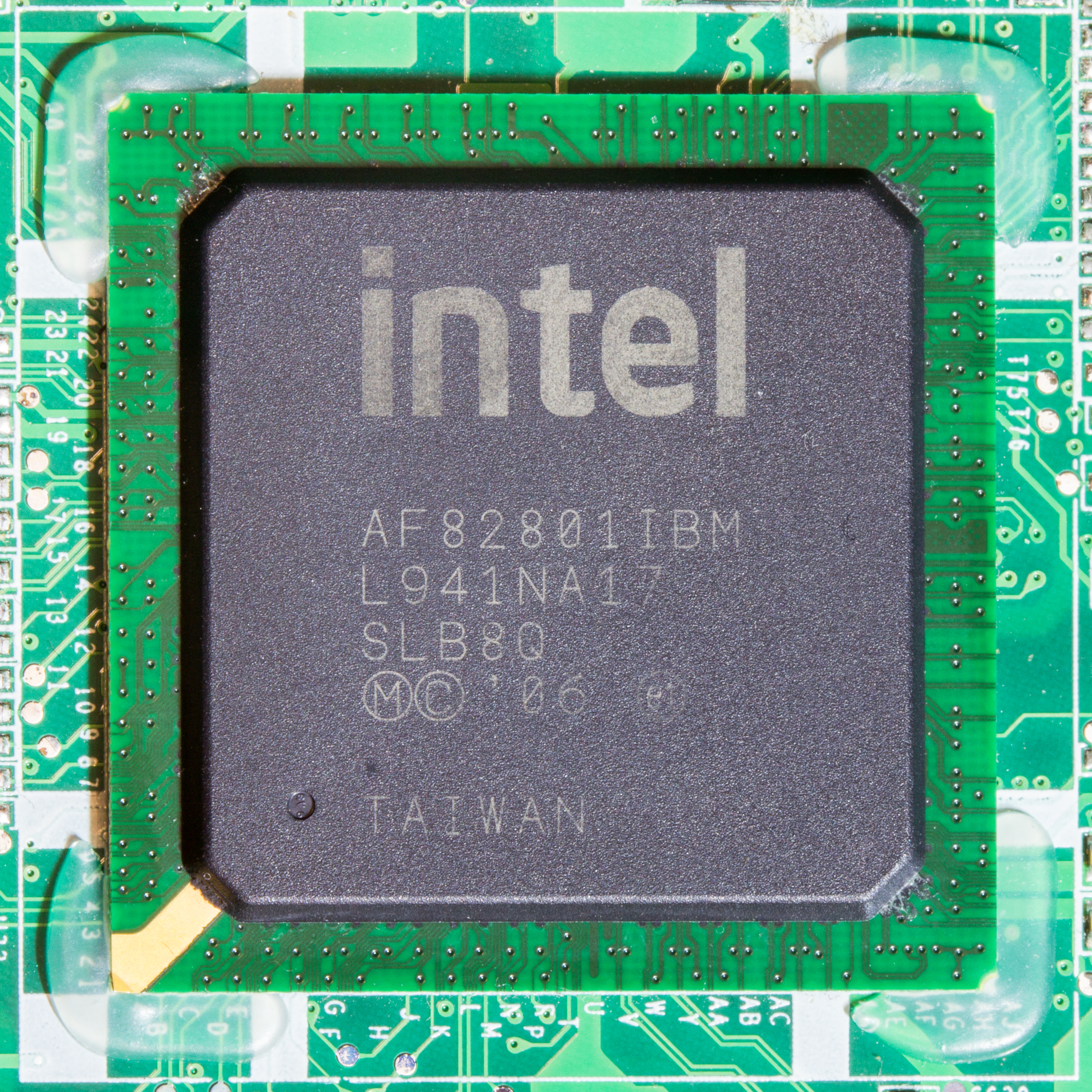 Intel AF82801IBM SLB8Q Southbridge